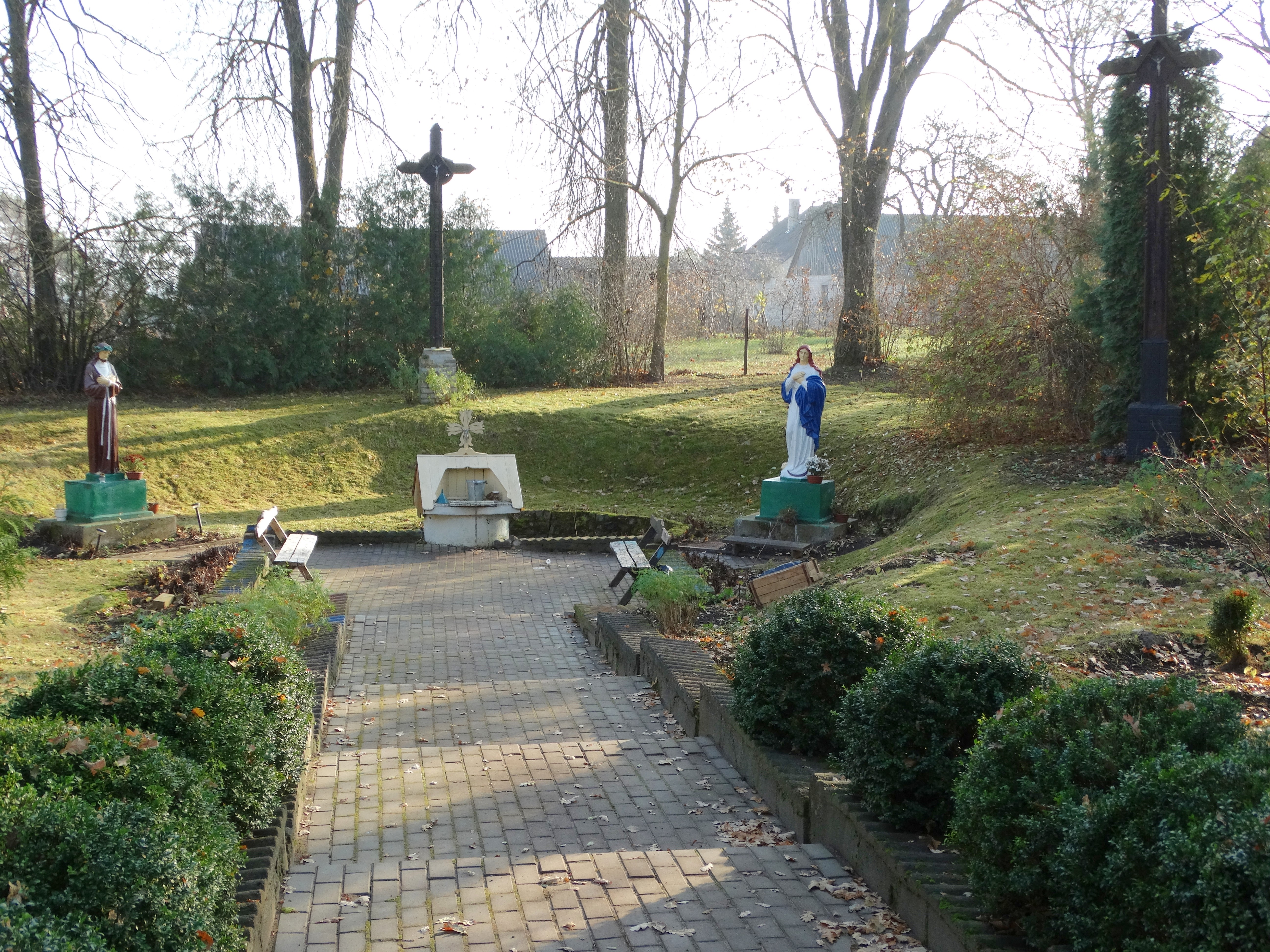 Šventabala Spring, Daujėnai, Pasvalys District, Lithuania